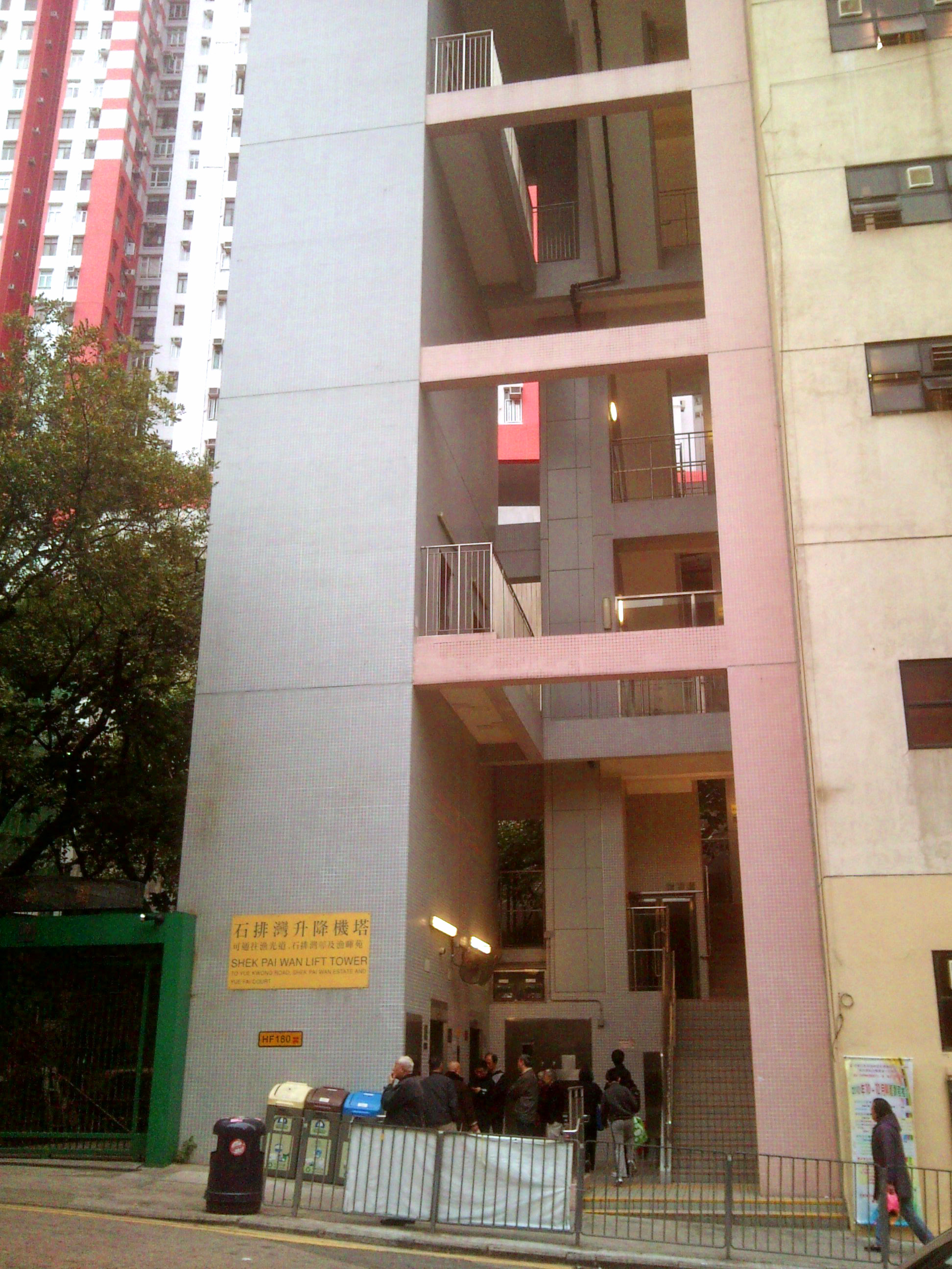 Shek Pai Wan Lift Tower